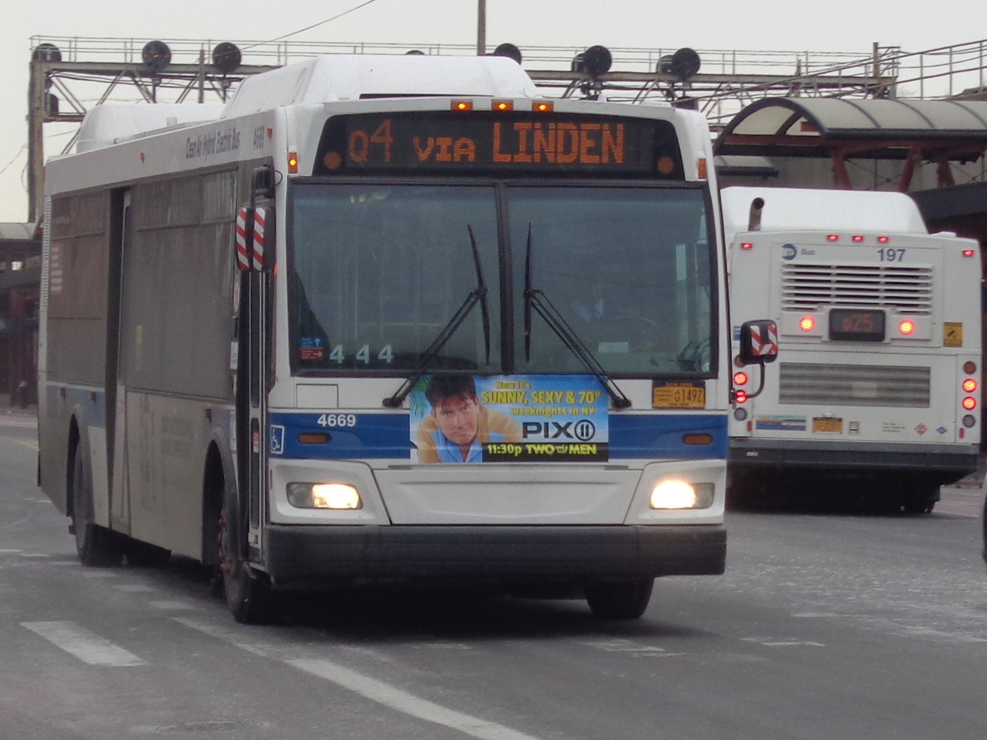 A Q4 bus heading west on Archer Avenue at the Jamaica Center Bus Terminal in Queens.